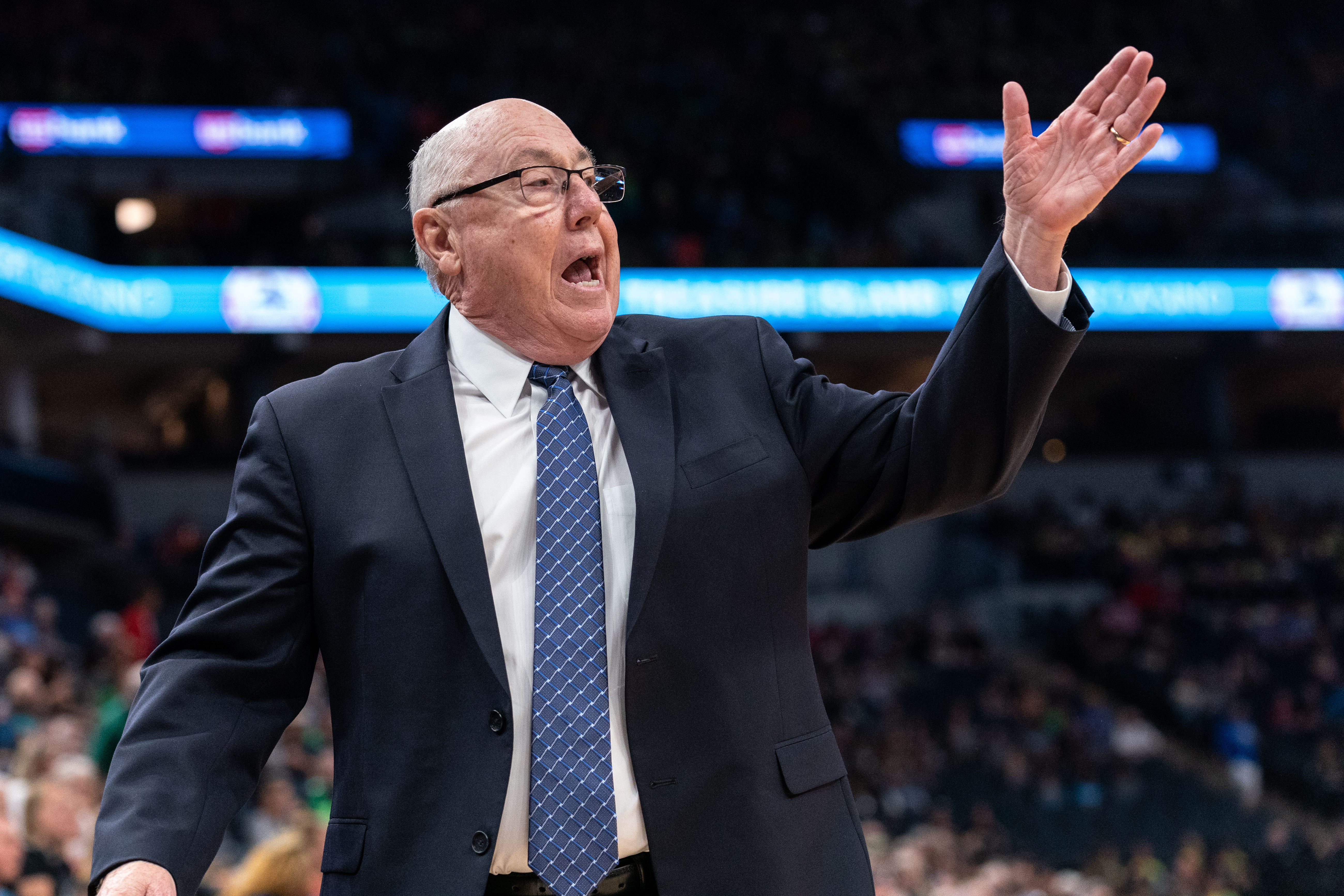 Washington Mystics Head Coach Mike Thibault during a game against the Minnesota Lyx